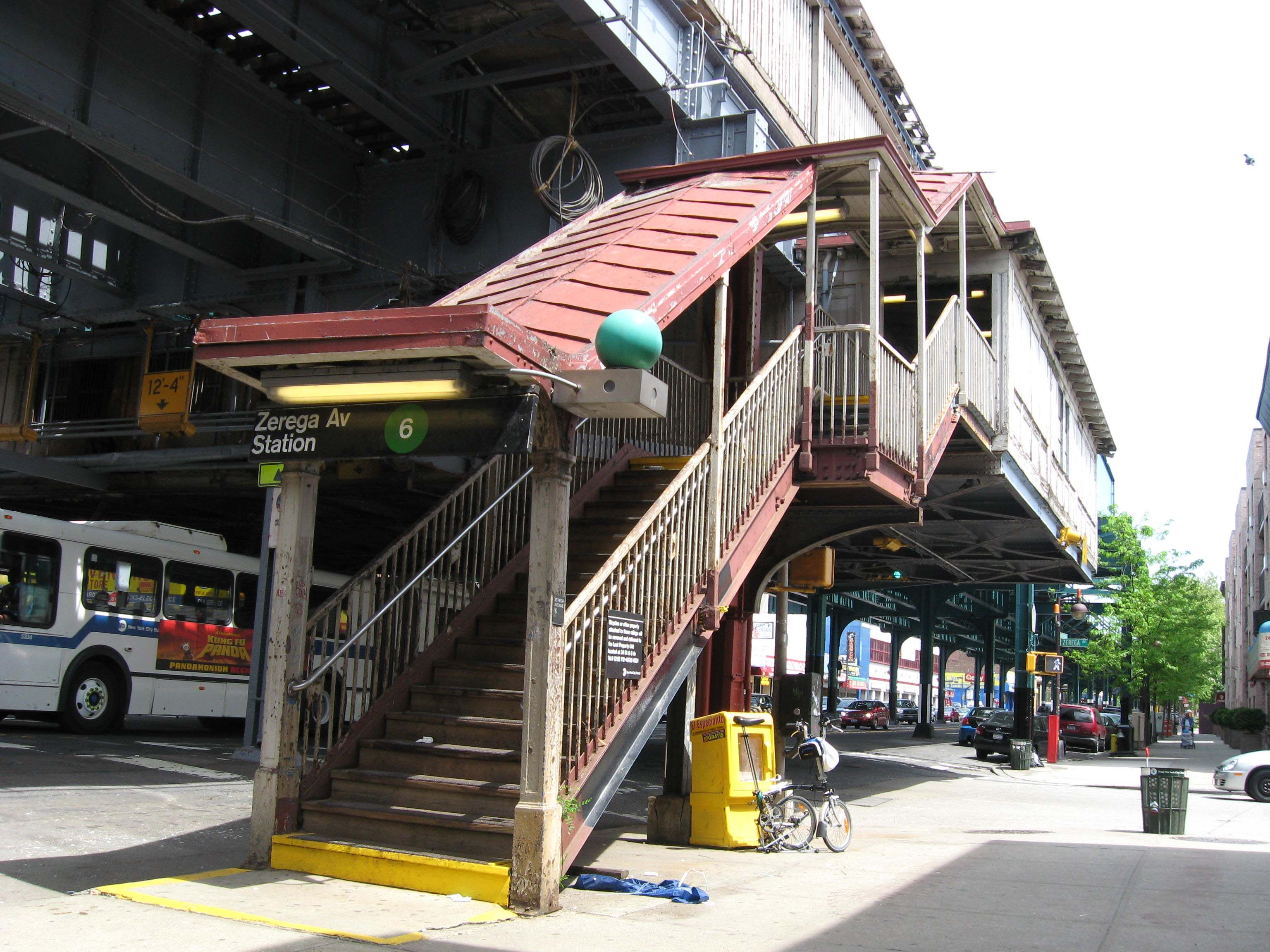 Looking north on a cloudy late morning at Zerega Avenue (IRT Pelham Line). See File:Zeragatrackjeh.JPG for northbound track.